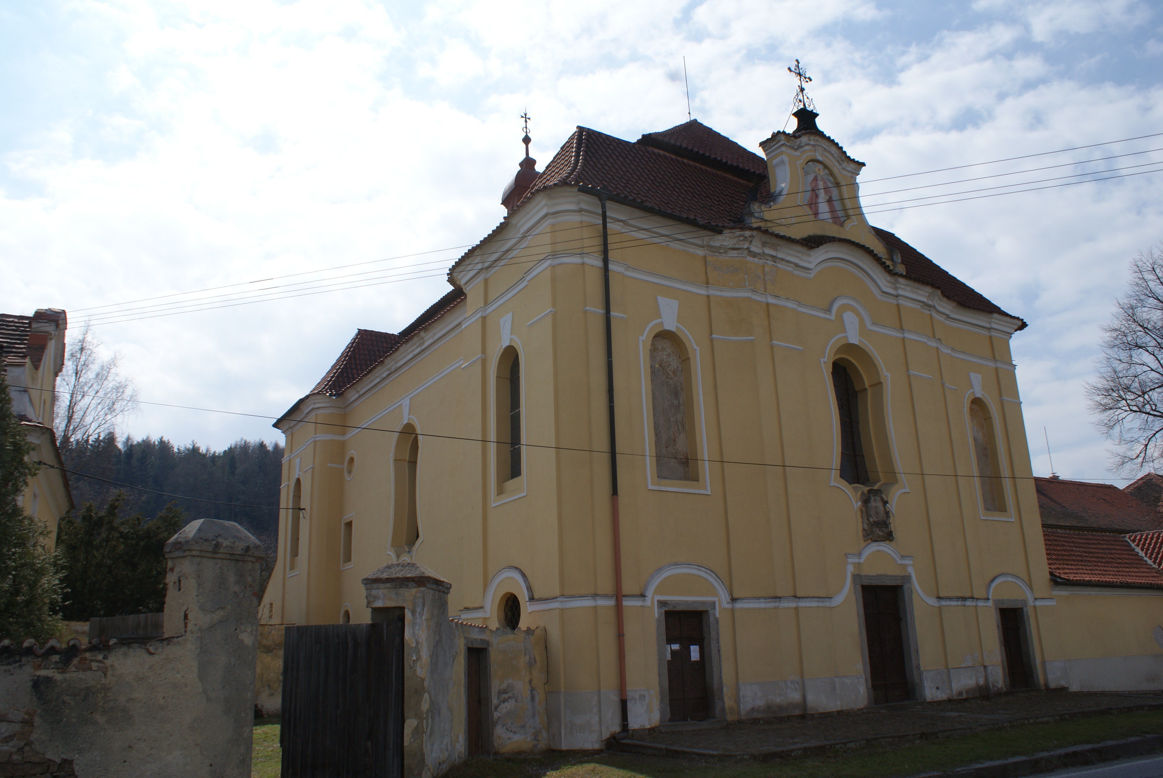 Parish Church in Podsrp, part of Strakonice, Czech Republic.